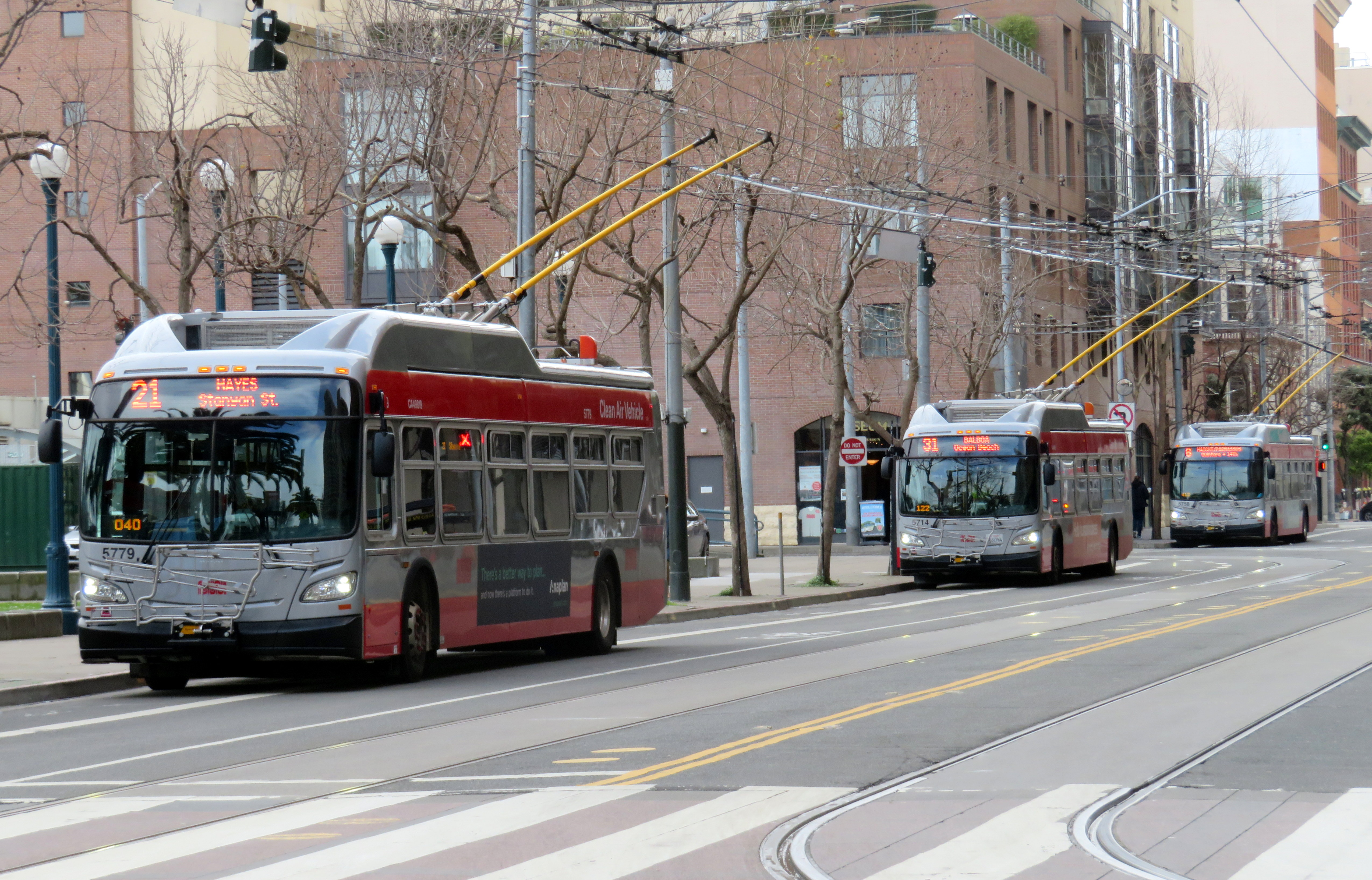 Three Muni trolleybuses on Steuart Street in March 2019